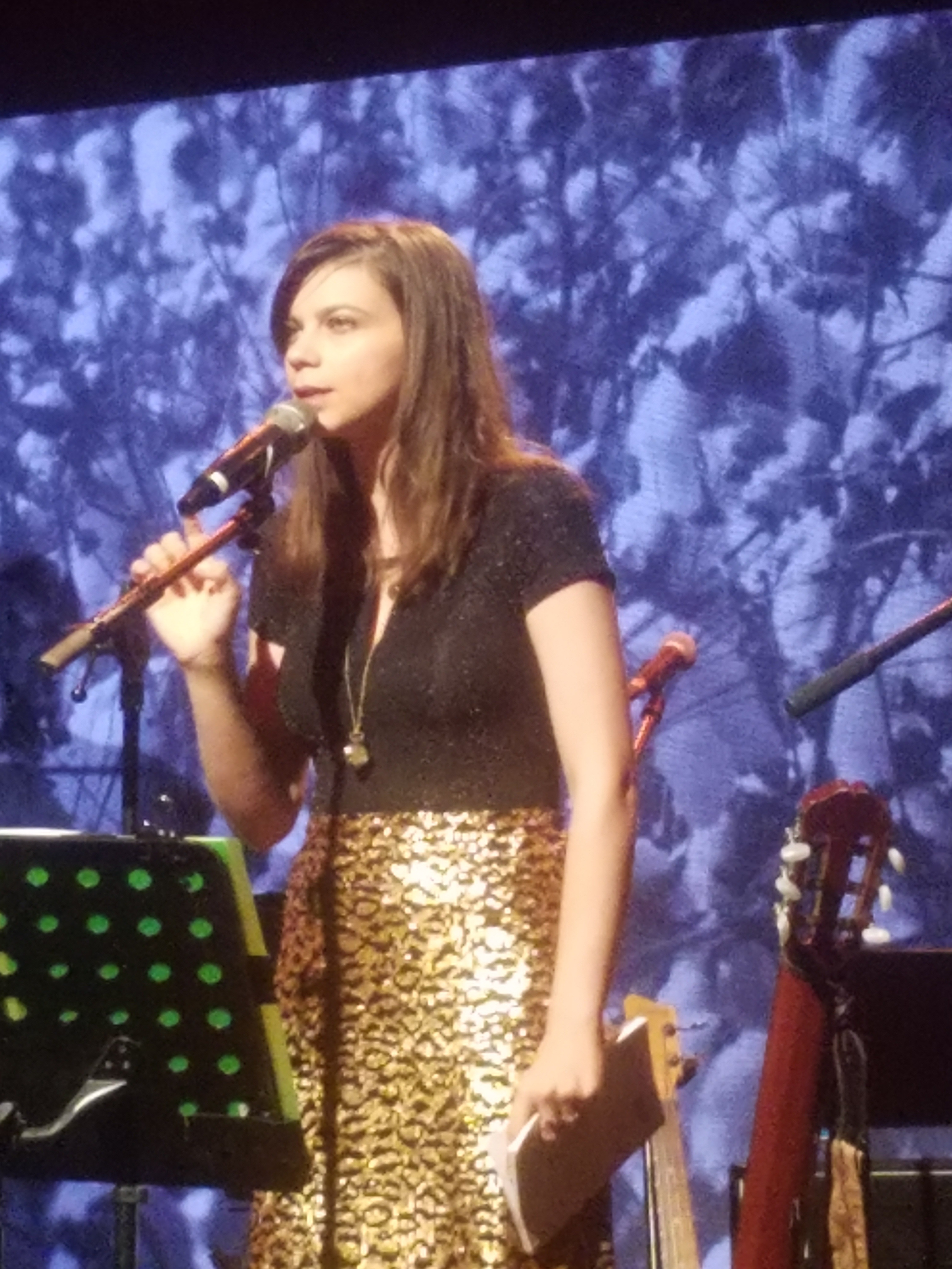 Israeli poet Alex Riff in concert, Avi-Chai, Jerusalem